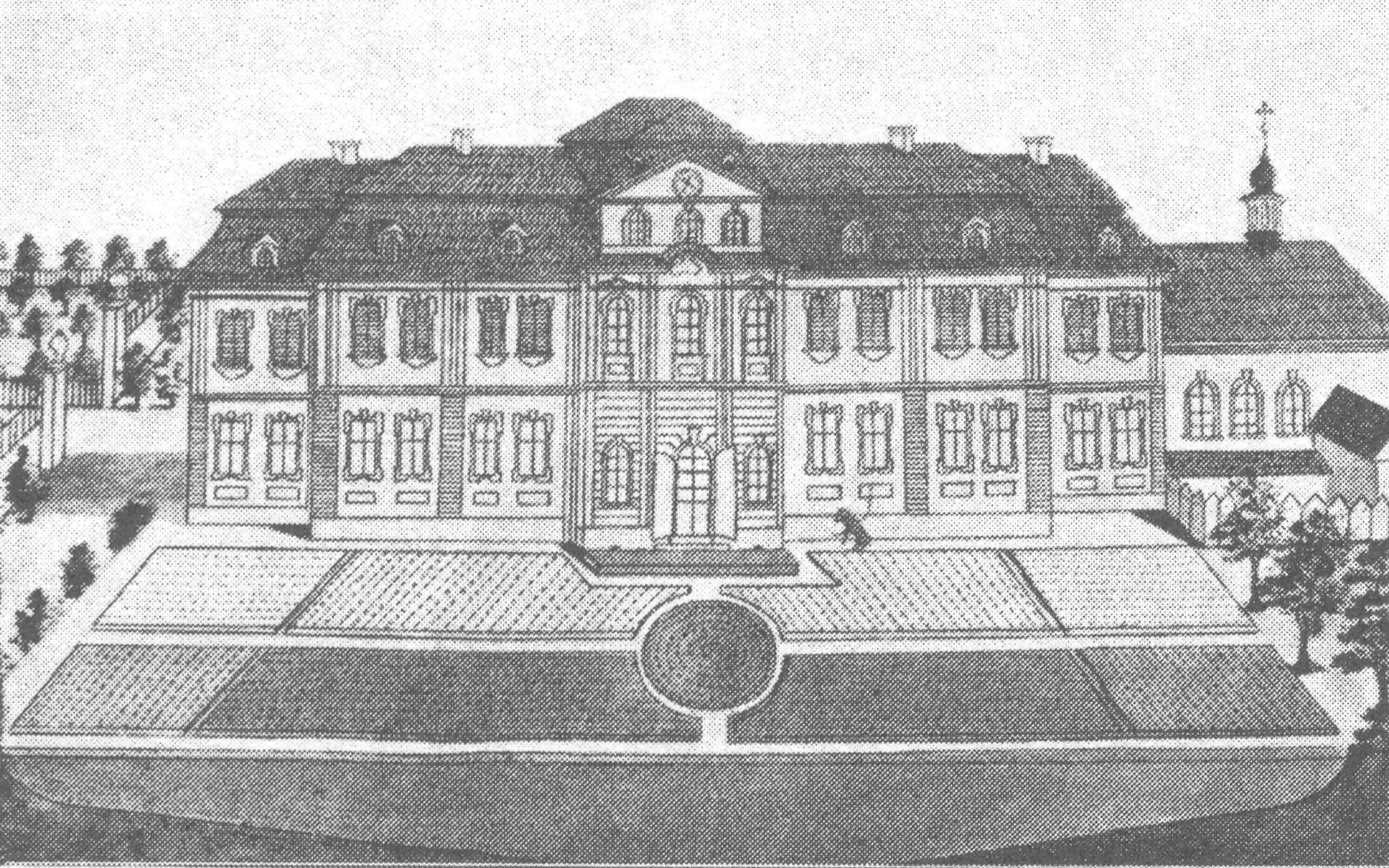 Nová Horka Manor, drawing from ca 1817 by Franz Kledensky